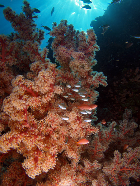 Reefscape taken in East Timor.